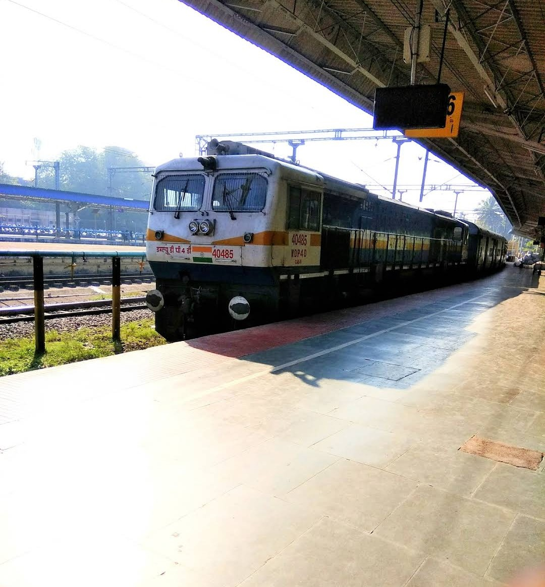 Trivandrum Mangalore Express at Kozhikode station